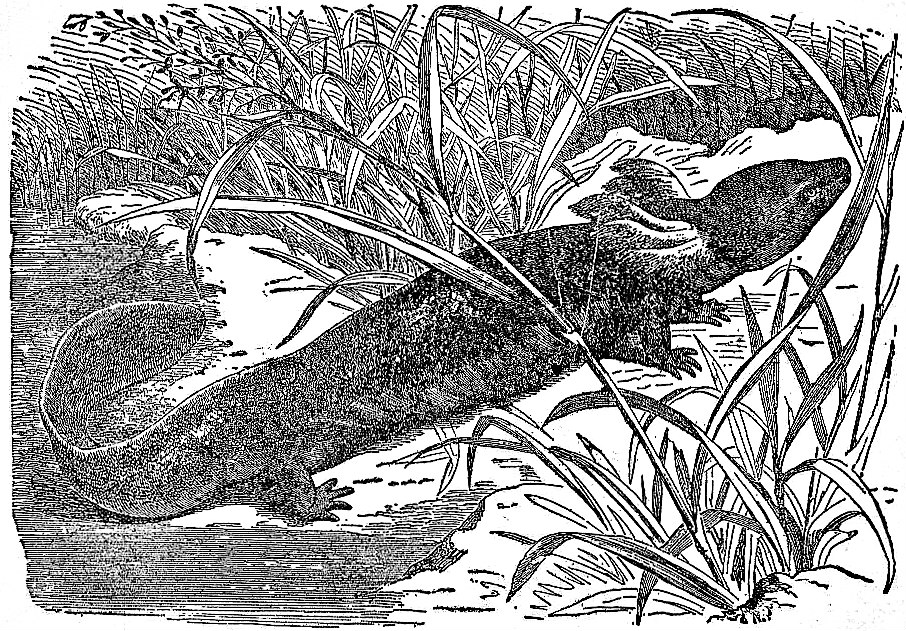 Drawing/wood engraving of a common mudpuppy.